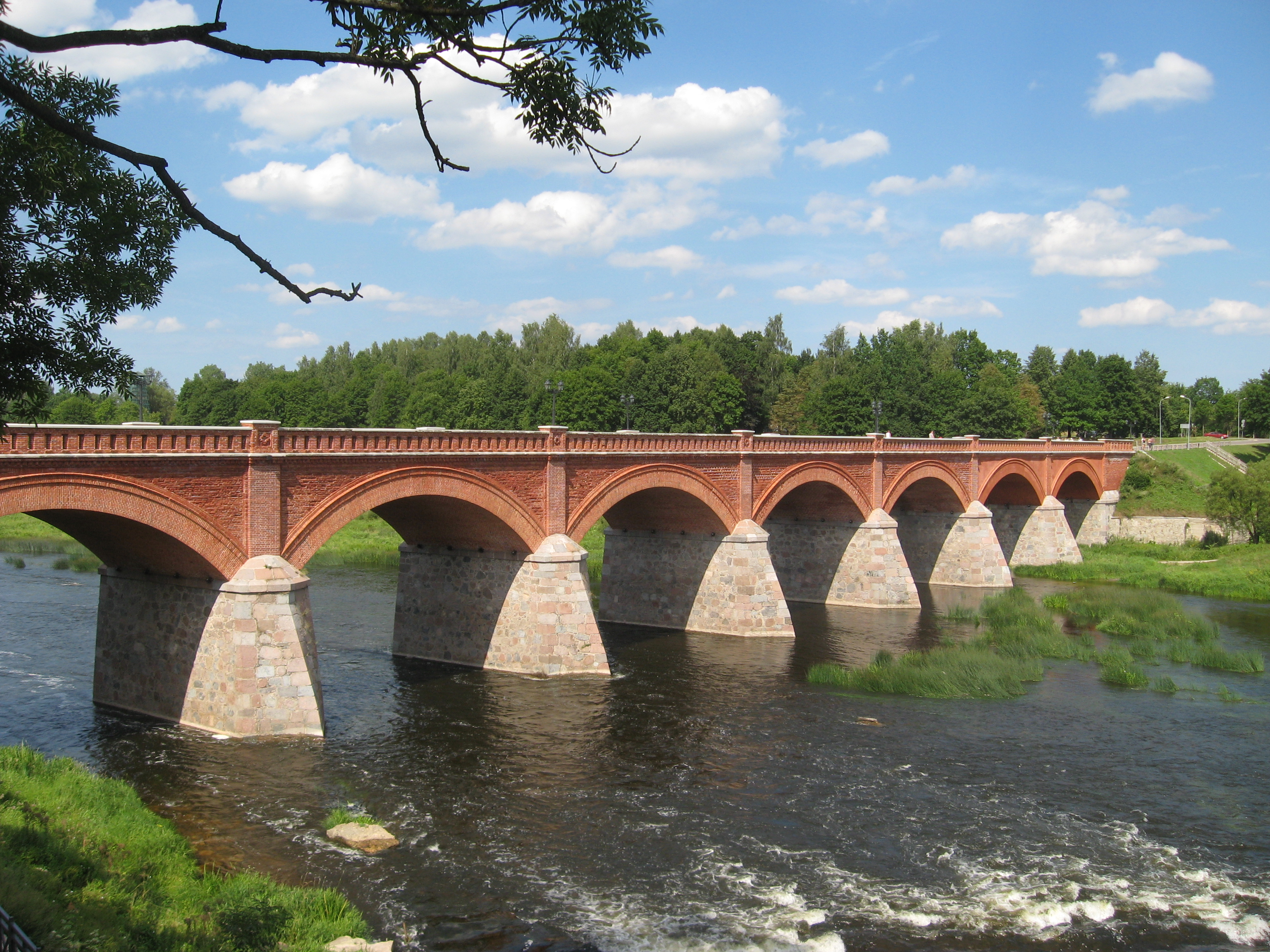 The masonry bridge across river Venta in the town of Kuldiga, Latvia.